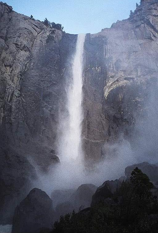 Base of Bridalveil Fall, Yosemite National Park.